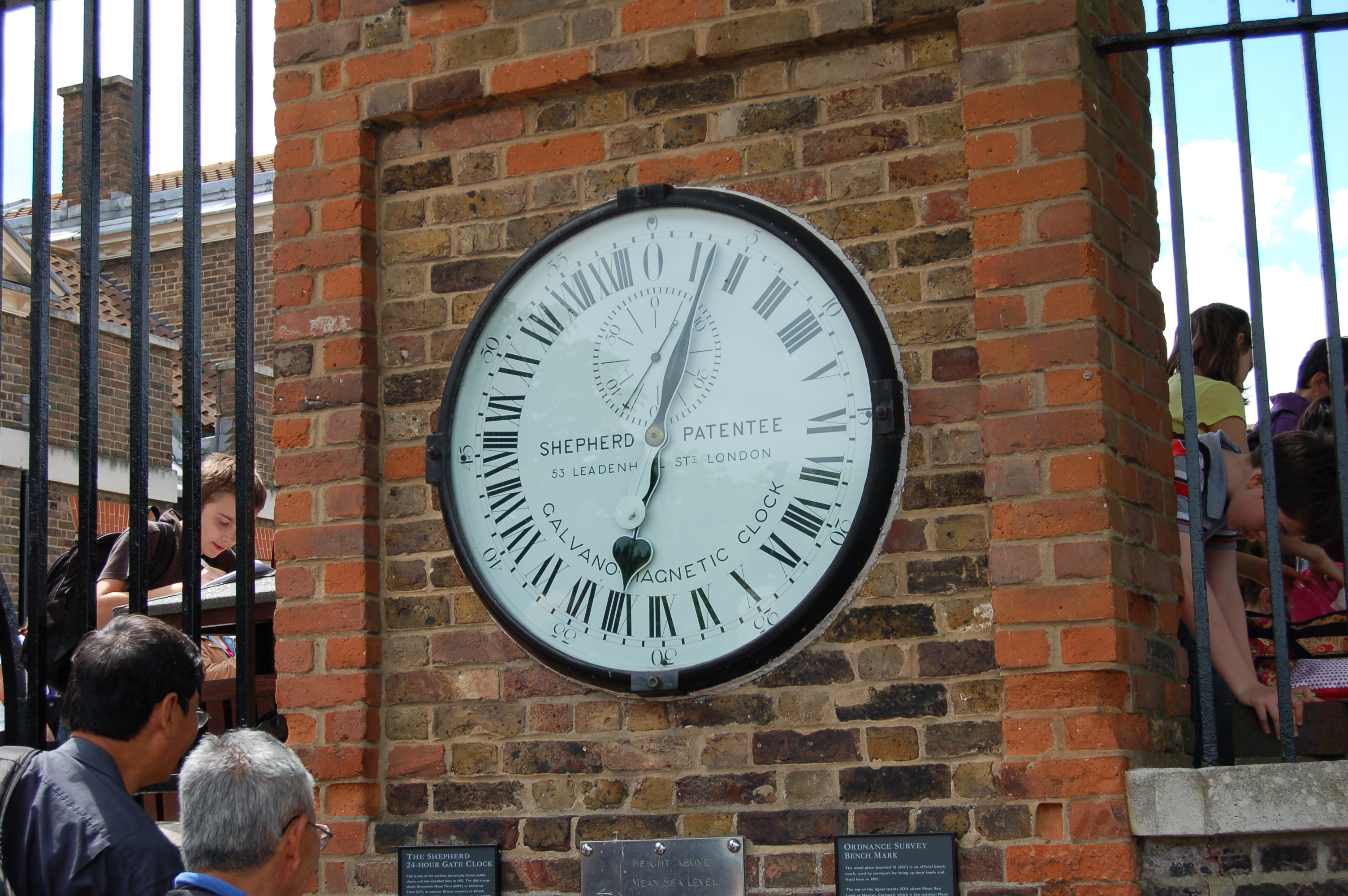 24 Hour clock located at Royal Observatory in Greenwich. This was one of the earliest electrically driven public clocks and was installed here in 1852. The dial always shows Greenwich Mean Time (GMT) or Universal Time (UT). In summer Britain converts to British Summer Time(BST), which is an hour ahead of GMT, and the clock appears one hour 'late'. Being a 24 hour clock, the hour hand marks noon (XII) at the bottom of the dial and midnight (0) at the top. The time shown is accurate to 0.5 of a second.